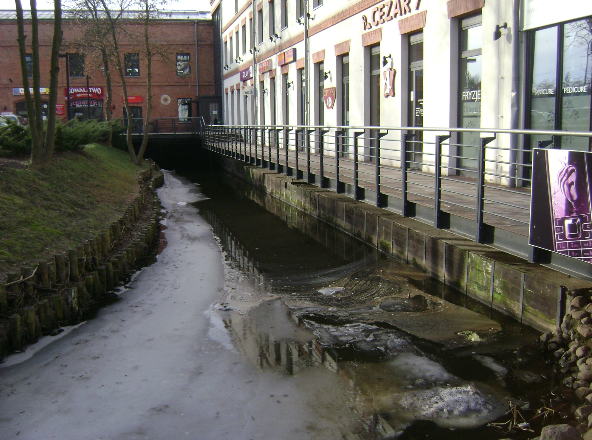 Poland. Konstancin-Jeziorna